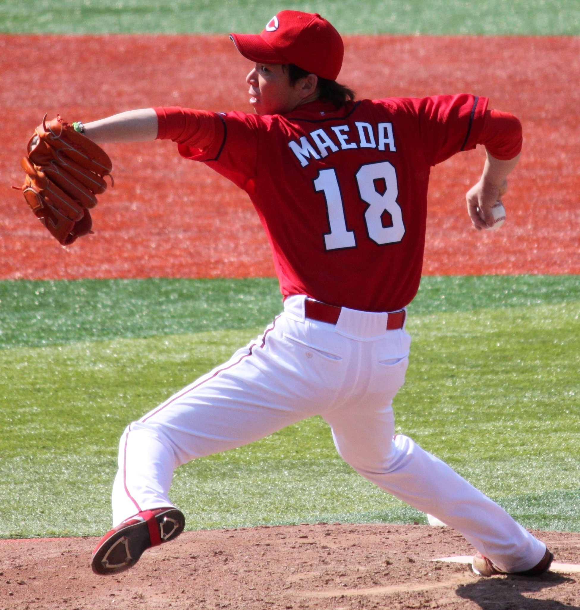 Kenta Maeda, pitcher of the Hiroshima Toyo Carp, at Yokohama Stadium.